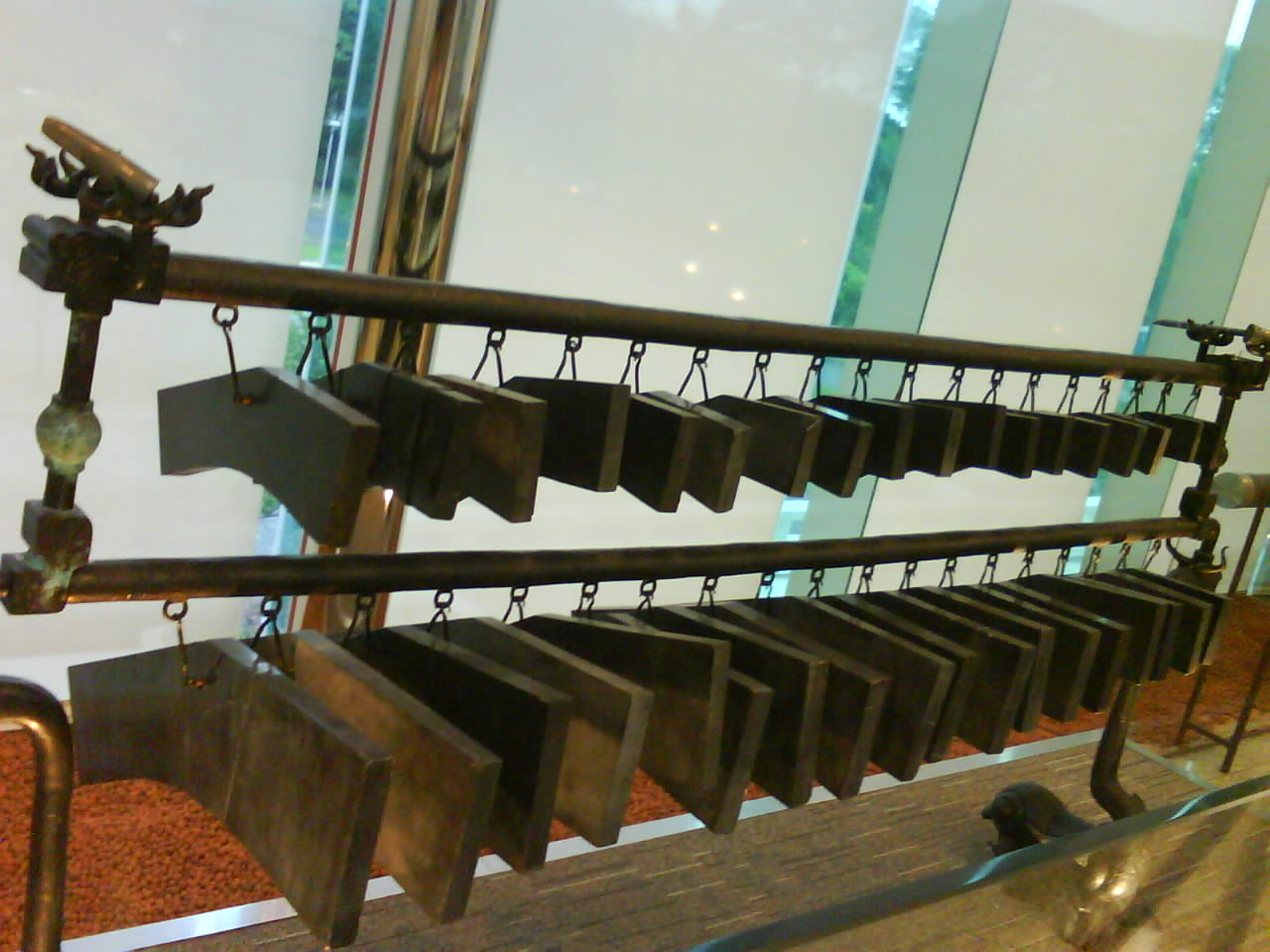 Image of an olden Chinese Orchestra instrument found in the Singapore Conference Hall as a monument.